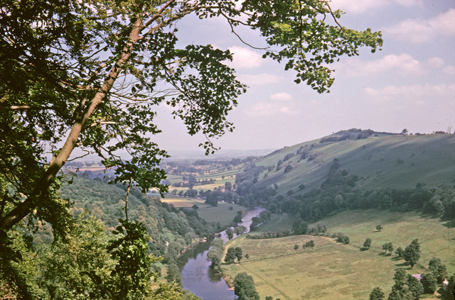 River Wye at Symond's Yat Rock, Herefordshire taken 1963